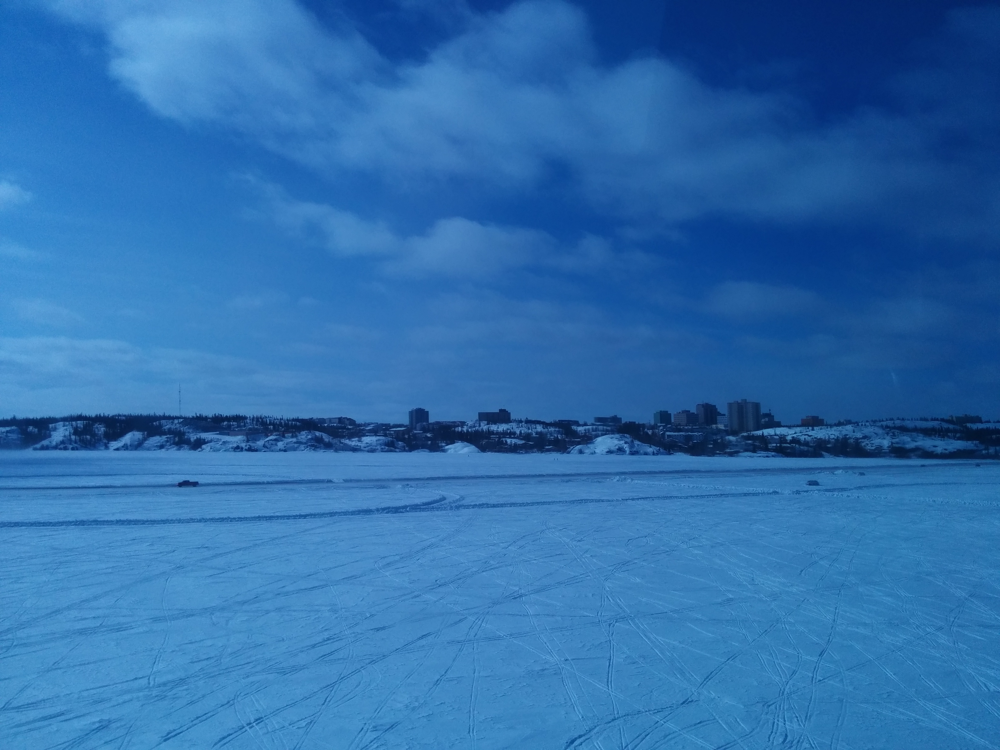 The Dettah Ice Road connecting Yellowknife to Dettah, Northwest Territories, Canada.